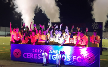 Ceres–Negros F.C. celebrate after receiving their third consecutive Philippines Football League championship trophy at the Aboitiz Pitch in Lipa, Batangas on October 19, 2019.